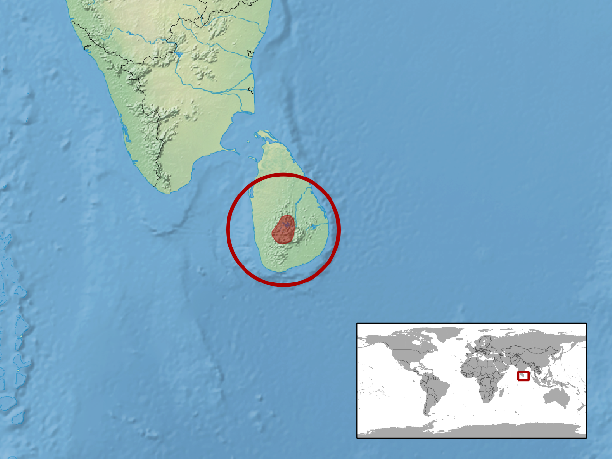 geographic distribution of Hypnale nepa (Native: Sri Lanka)